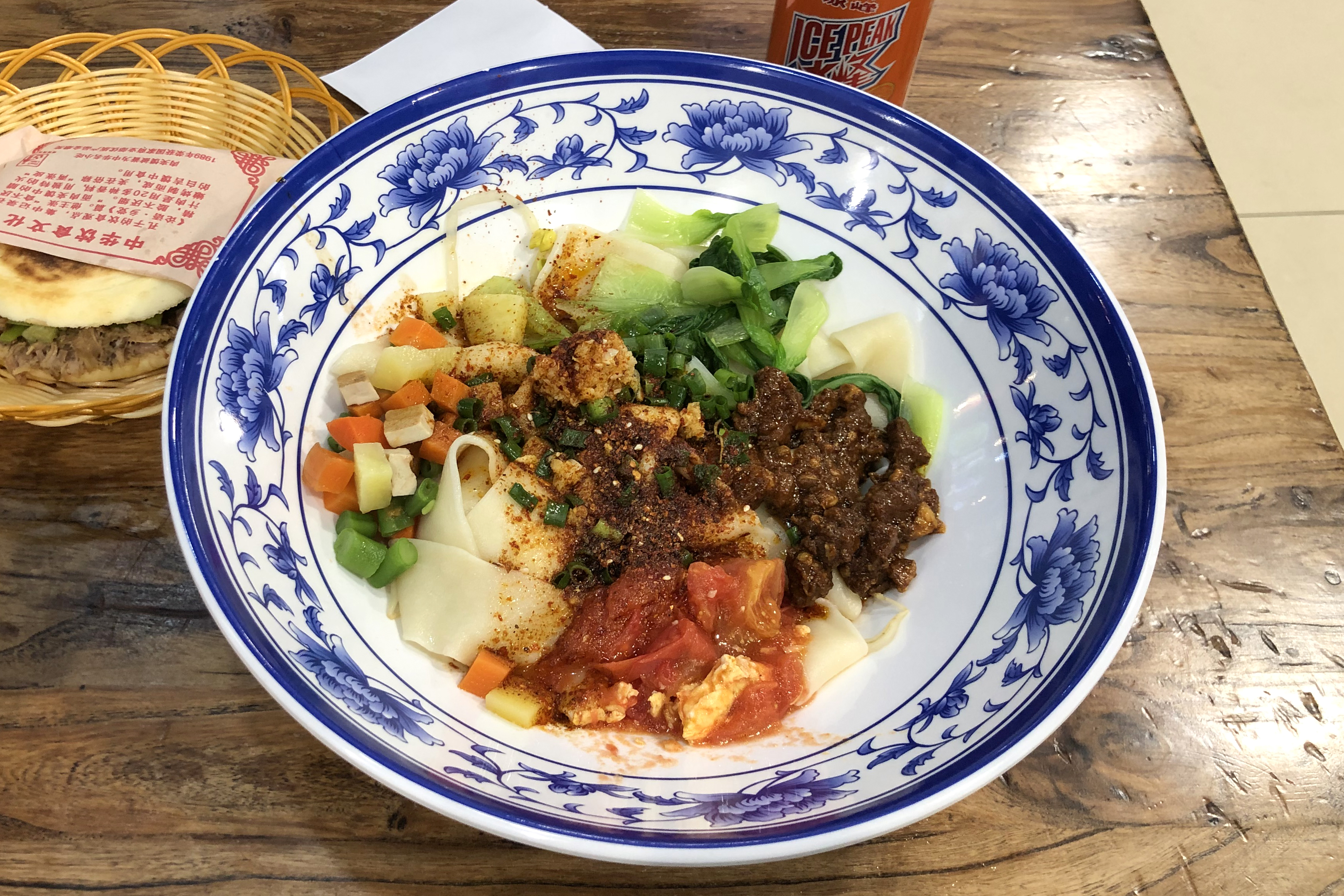 At a Shaanxi-style restaurant near Capital Airport.